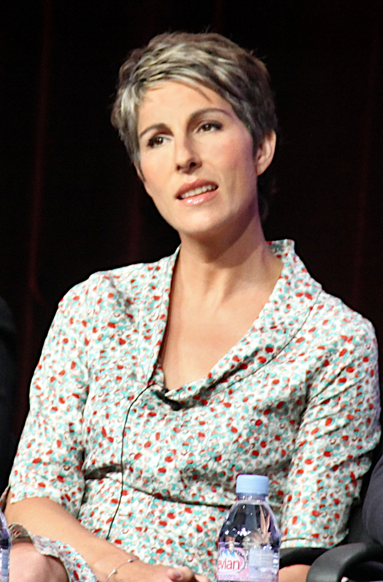 Cropped version of Episodes cast TCA 2010.jpg